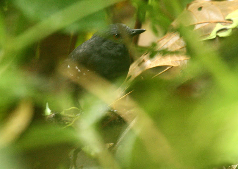 Esmeraldas Antbird (Myrmeciza nigricauda). A male at Milpe Bird Sanctuary, NW Ecuador.